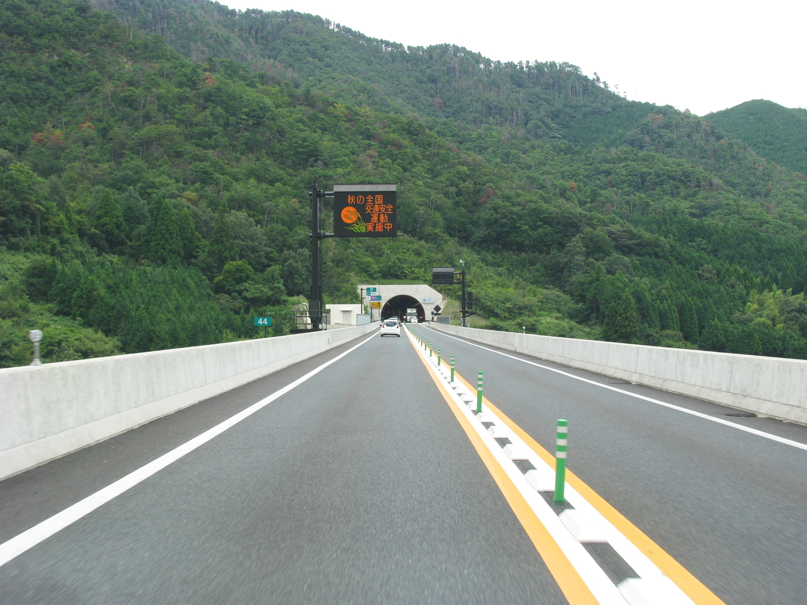 The Tottori Expressway. This place is Tottori, Tottori, Japan.